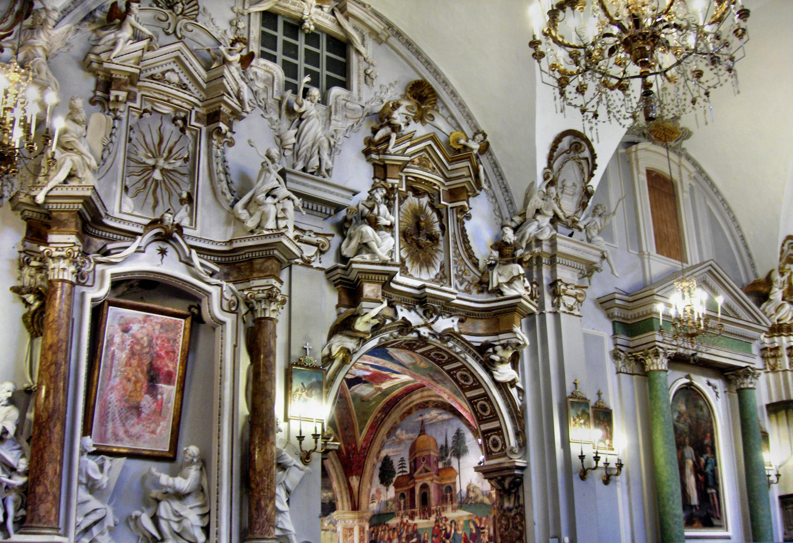 Inside view of the church of Santa Maria Maggiore (13th-17th century), Spello, Italy. The Baglione Chapel can be seen and a partial view on a fresco by Pinturicchio